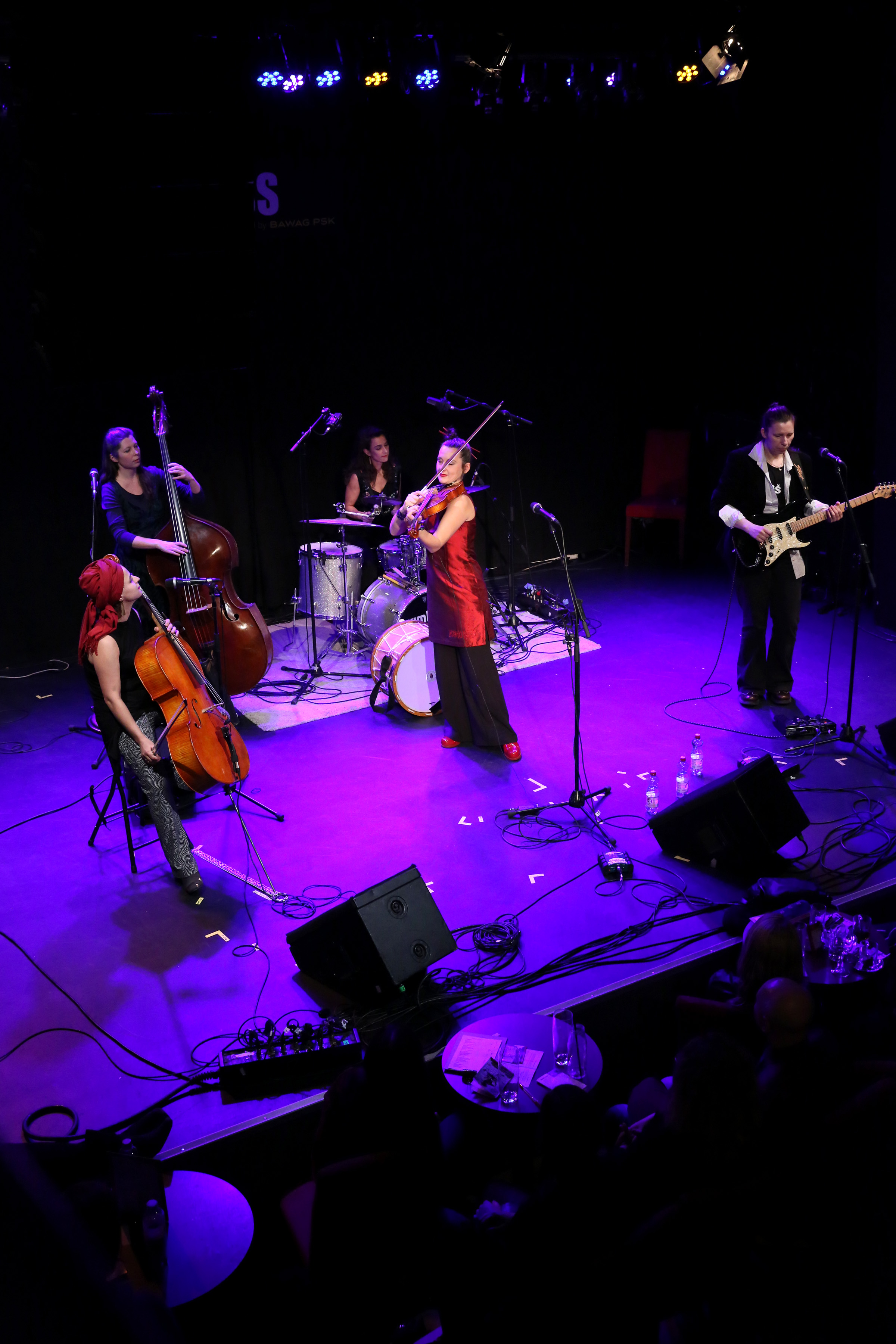 Austrian World Music Awards 2014: Madame Baheux; jazz club Porgy&Bess in Vienna, Austria.